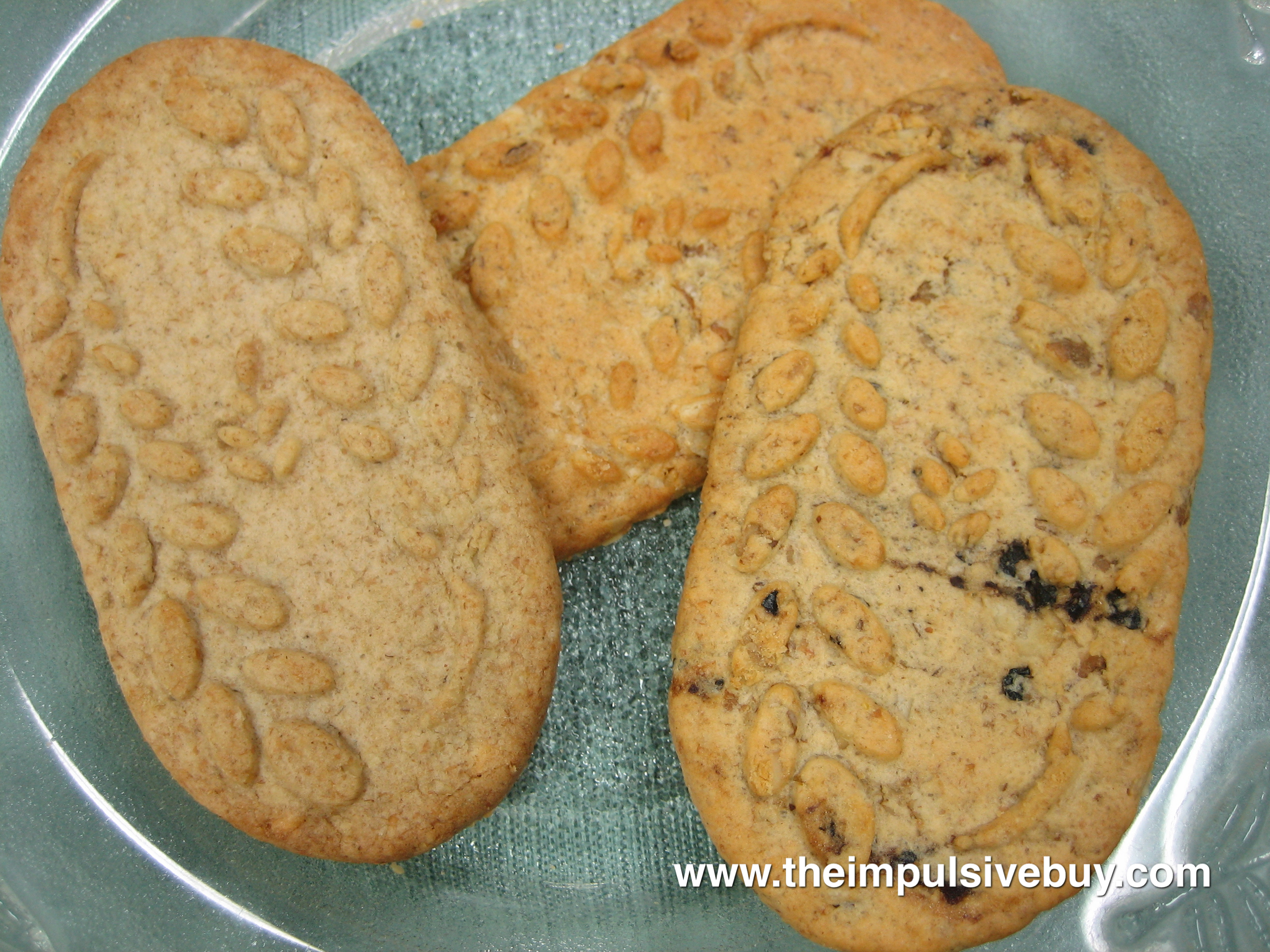 Click here to read our belVita review